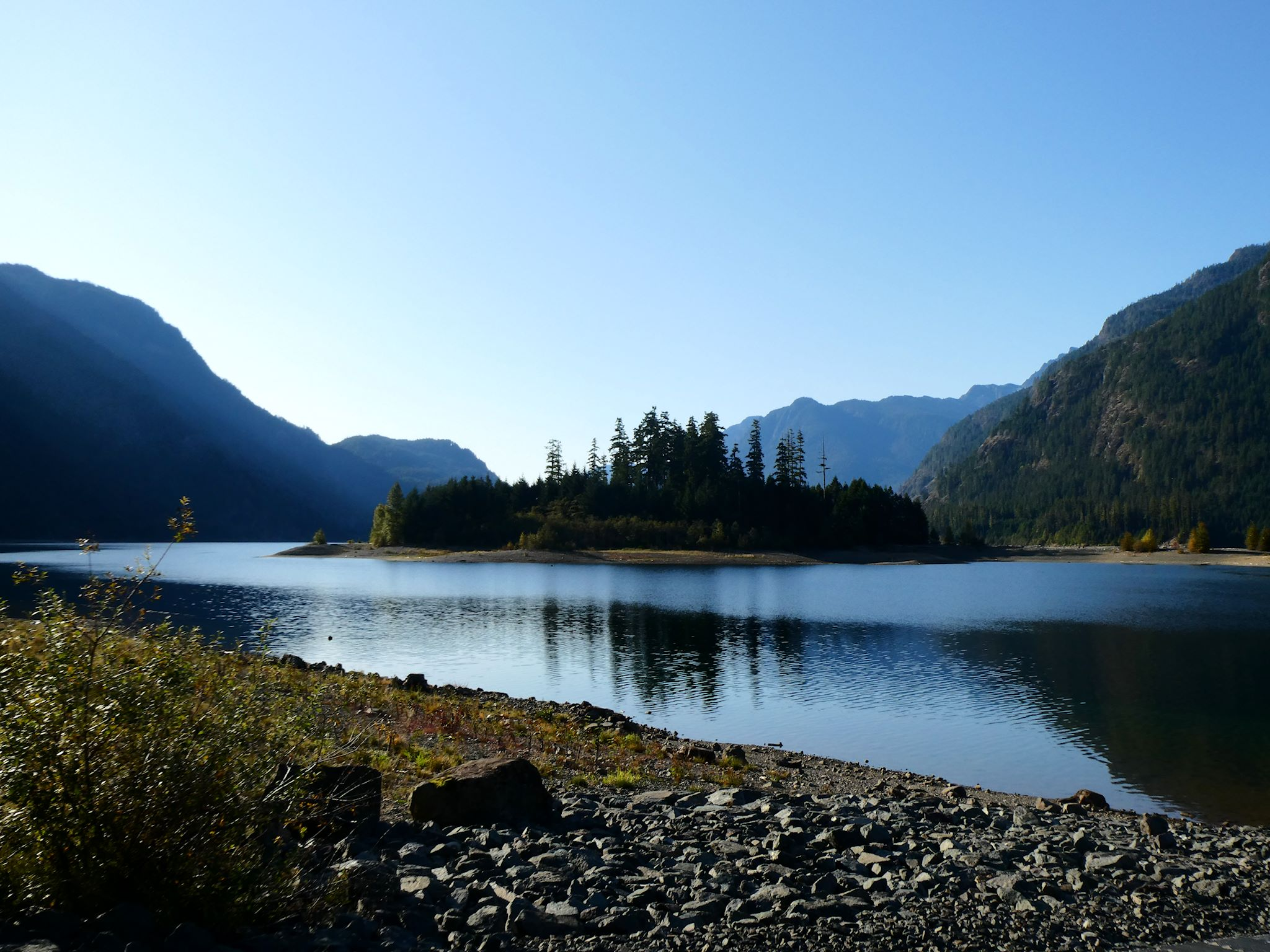 Buttle Lake near boat launch